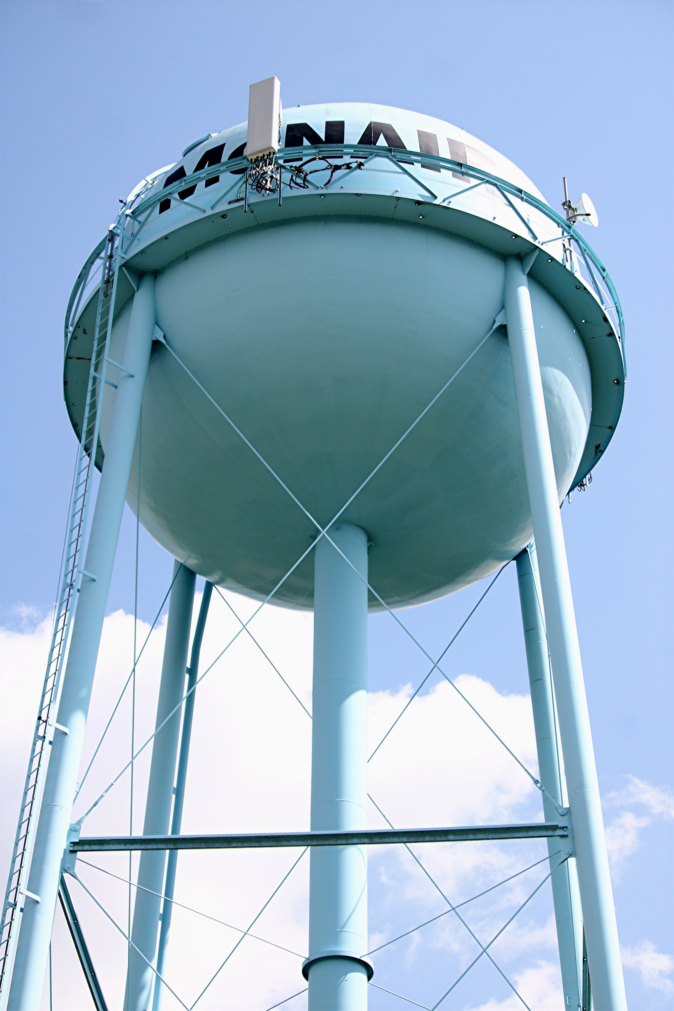 McNair, TX Originated as an unincorporated black community in the 1920s outside Baytown, TX. Image of community water tower.